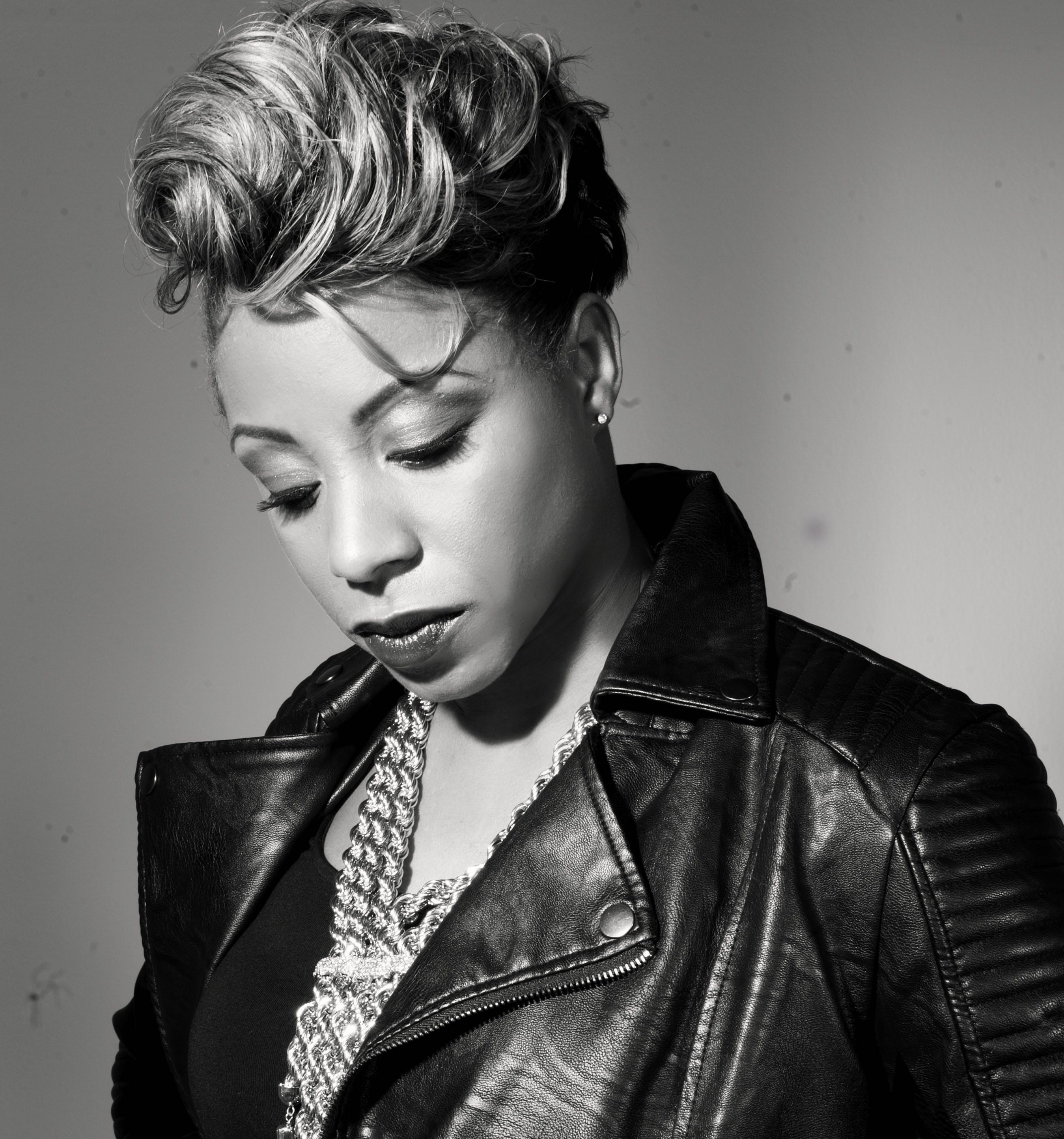 Exclusive photo session with Time2Shine 2013 winner Anastasia Baker